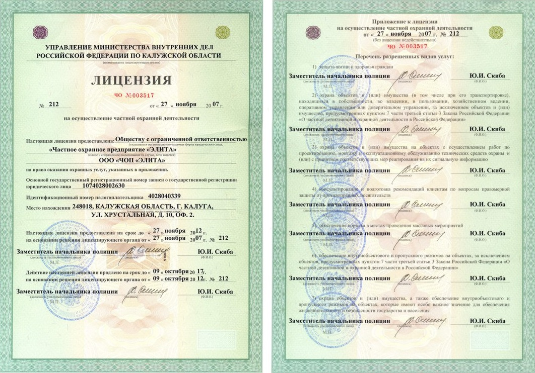 License (document) on private security activities in Russia. Issued by the Ministry of internal Affairs of Russia. The single sample.